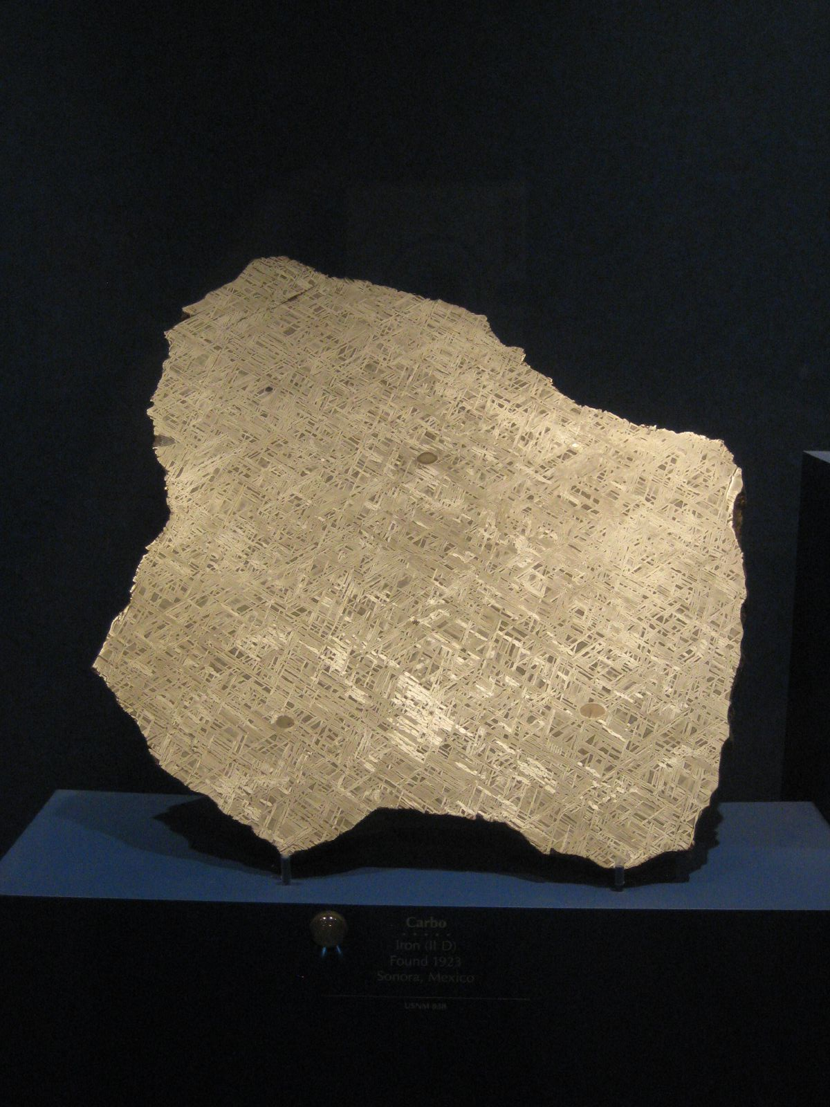 Carbo meteorite, Iron IID. Found 1923, Sonora, Mexico.